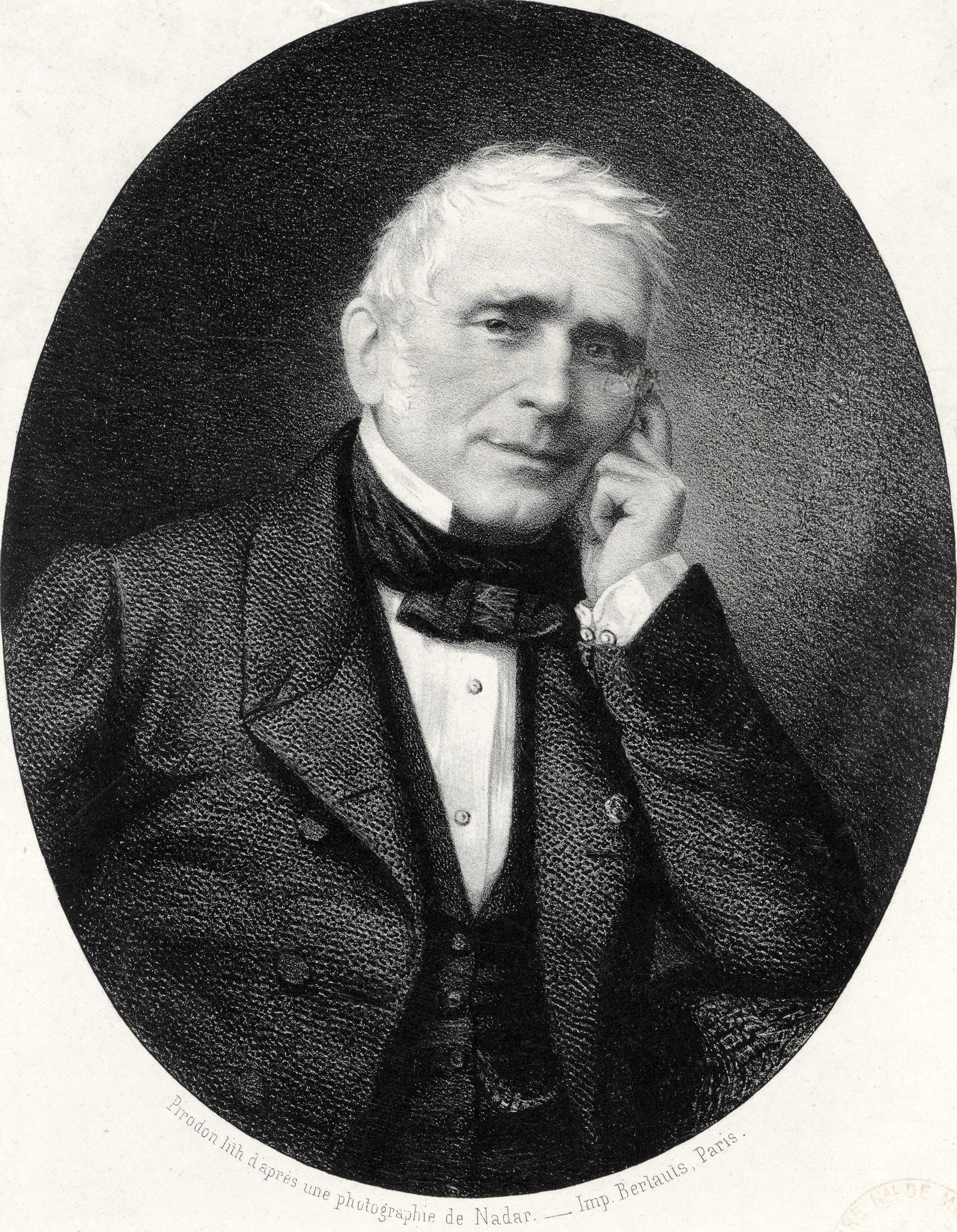 Eugène Scribe (1791–1861) French dramatist and librettist.